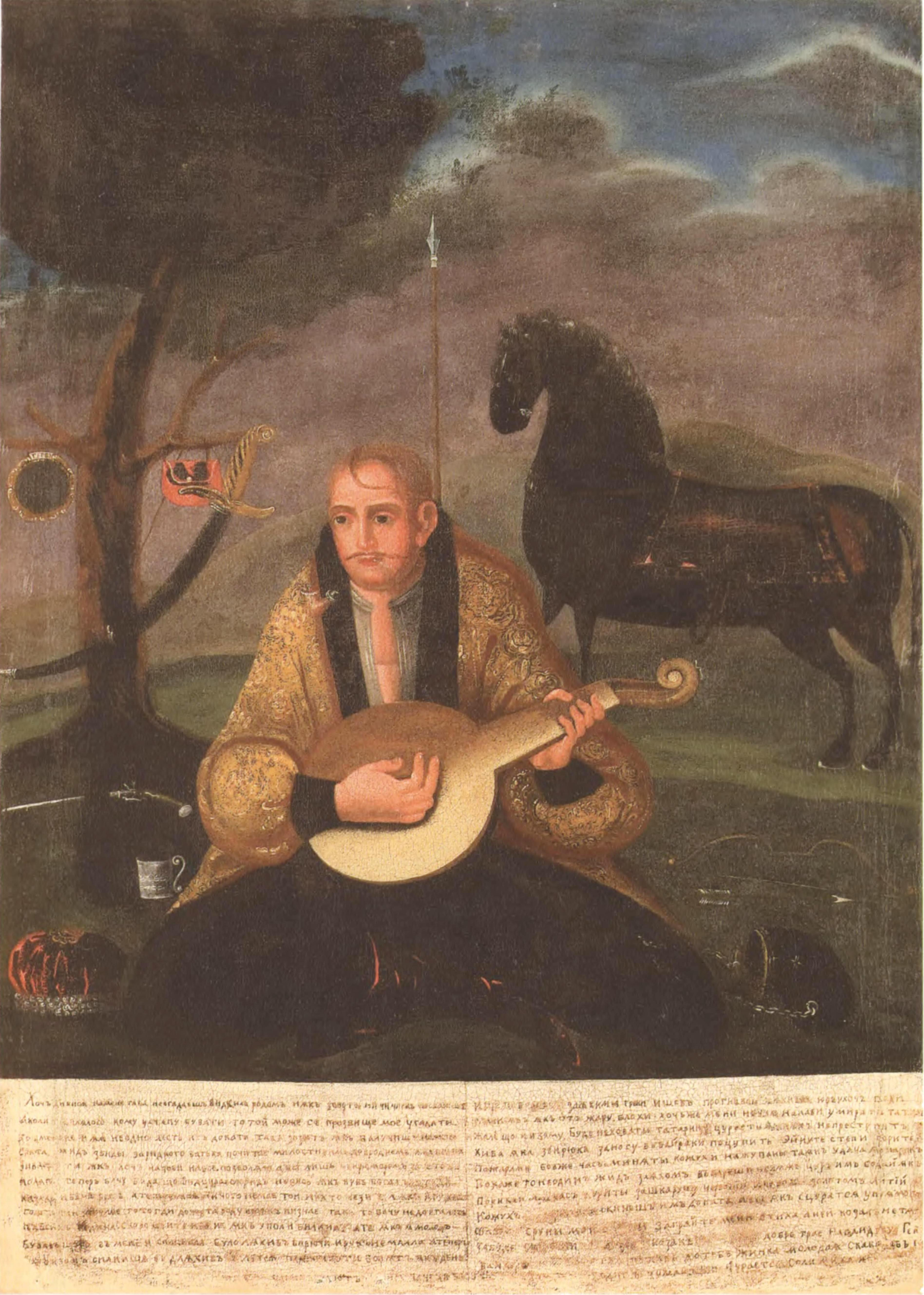 Cossack Mamai, 18th century. Origin unknown. Canvas, oil, 98 × 73. National Reserve Khortytsya.